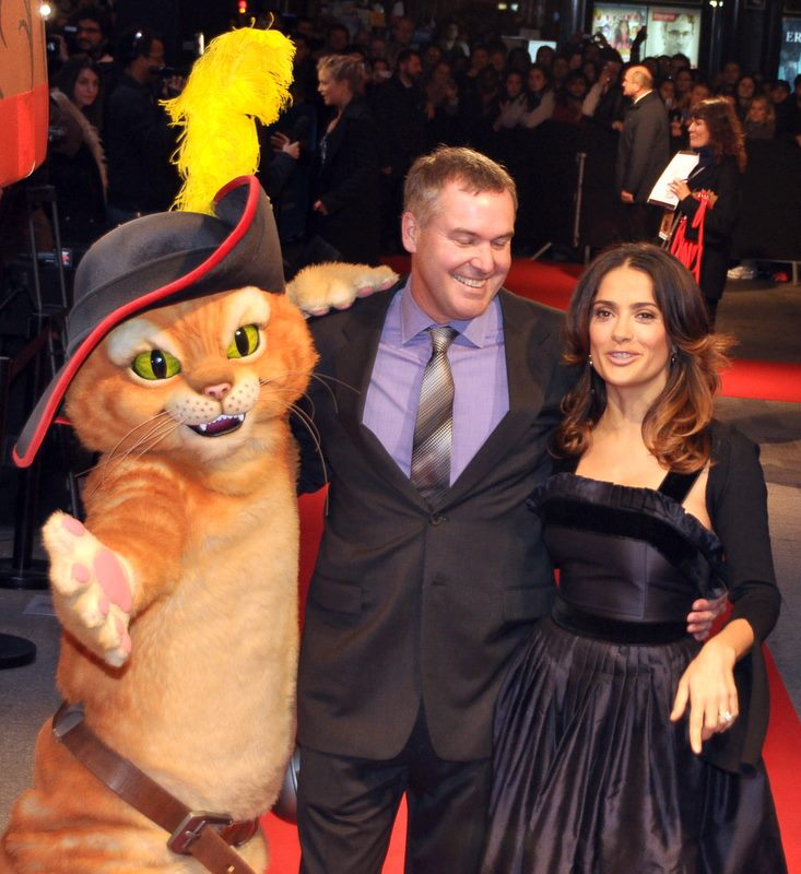 Salma Hayek and director Chris Miller at the premiere of Puss in Boots 3D in Paris